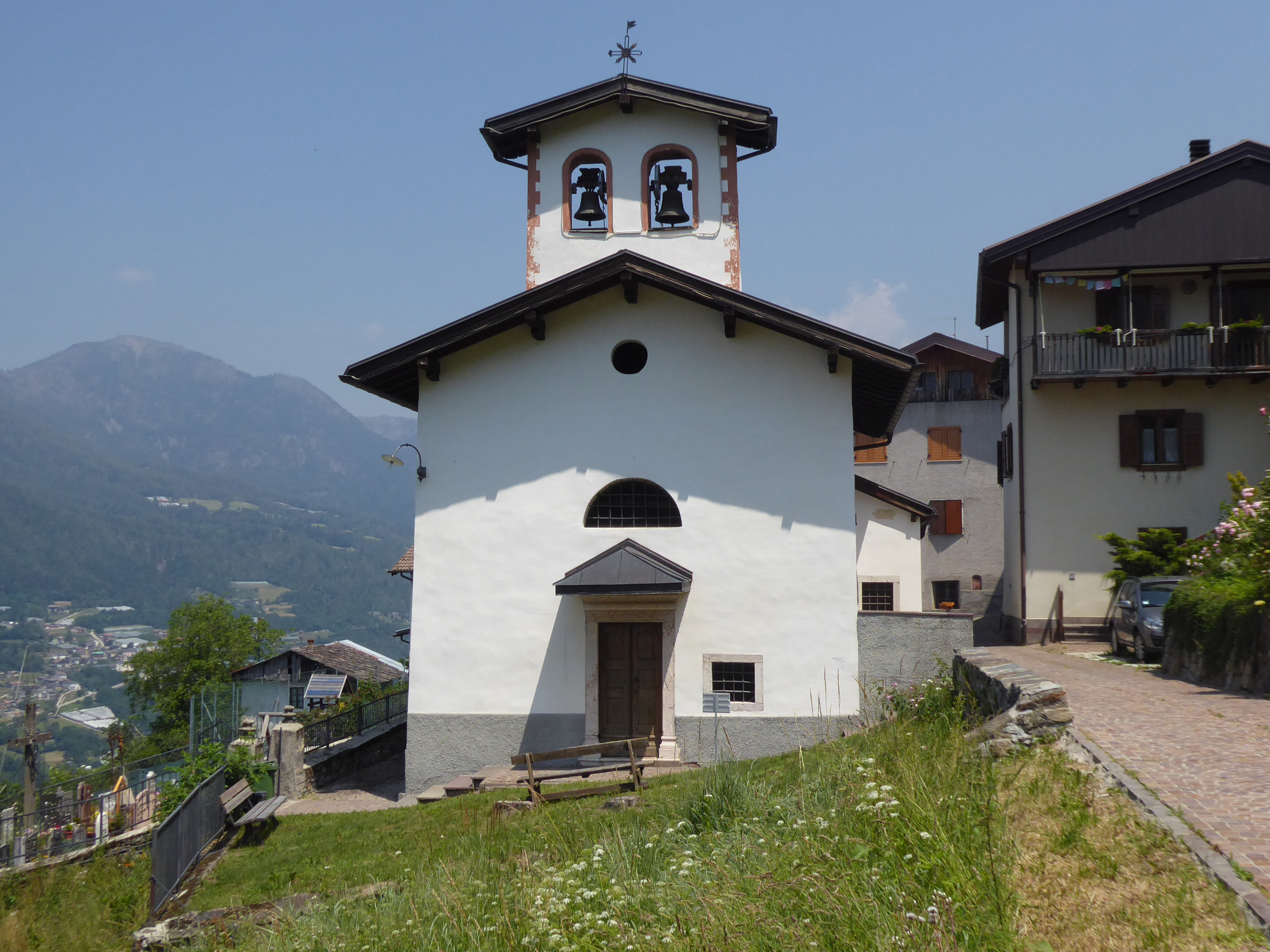 Falesina (Vignola-Falesina, Trentino, Italy) - Saint Anthony of Padua church